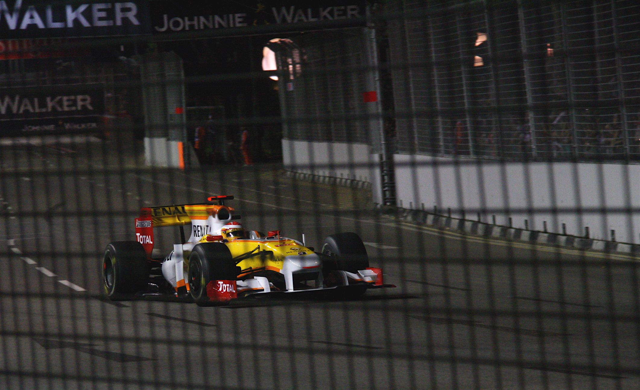 Fernando Alonso driving for Renault F1 at the 2009 Singapore Grand Prix.